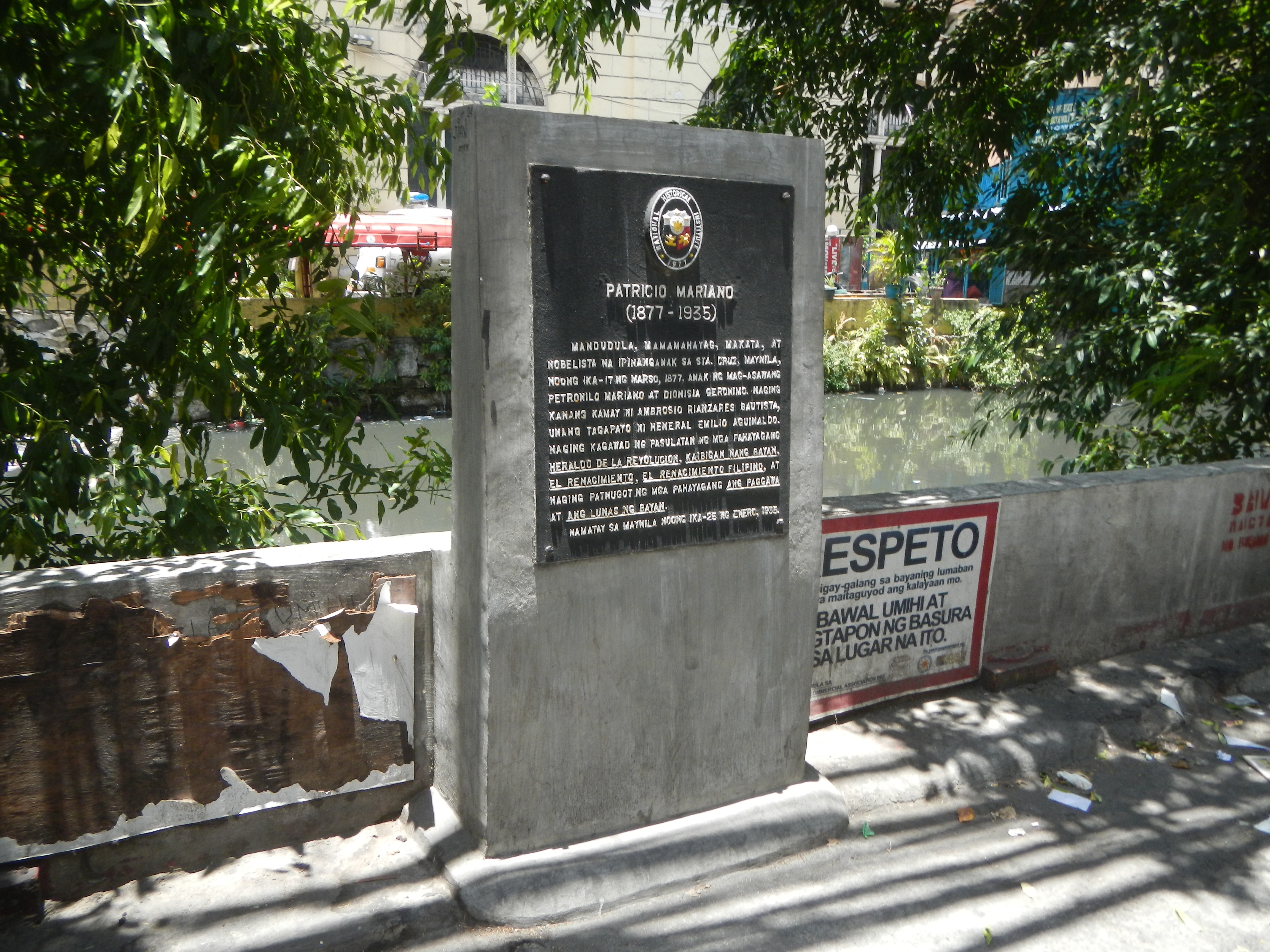 Escolta Street City of Manila, Santa Cruz, Manila and Binondo, List of Cultural Properties of the Philippines in Metro Manila, List of Cultural Properties of Santa Cruz Buildings in Santa Cruz, Manila Regina Building, First United Building (Perez-Samanillo Building) NHI or NHCP marker of Patricio Geronimo Mariano (17 March 1877 at Santa Cruz, Manila – 28 January 1935) Patricio Mariano Calle de la Escolta surrounded by Estuaries in Binondo and Santa Cruz, Manila in the List of rivers and estuaries in Metro Manila Estero de Binondo one of 6 major tributaries of the Pasig River by the Dasmarinas Bridge (Estero de la Reina).